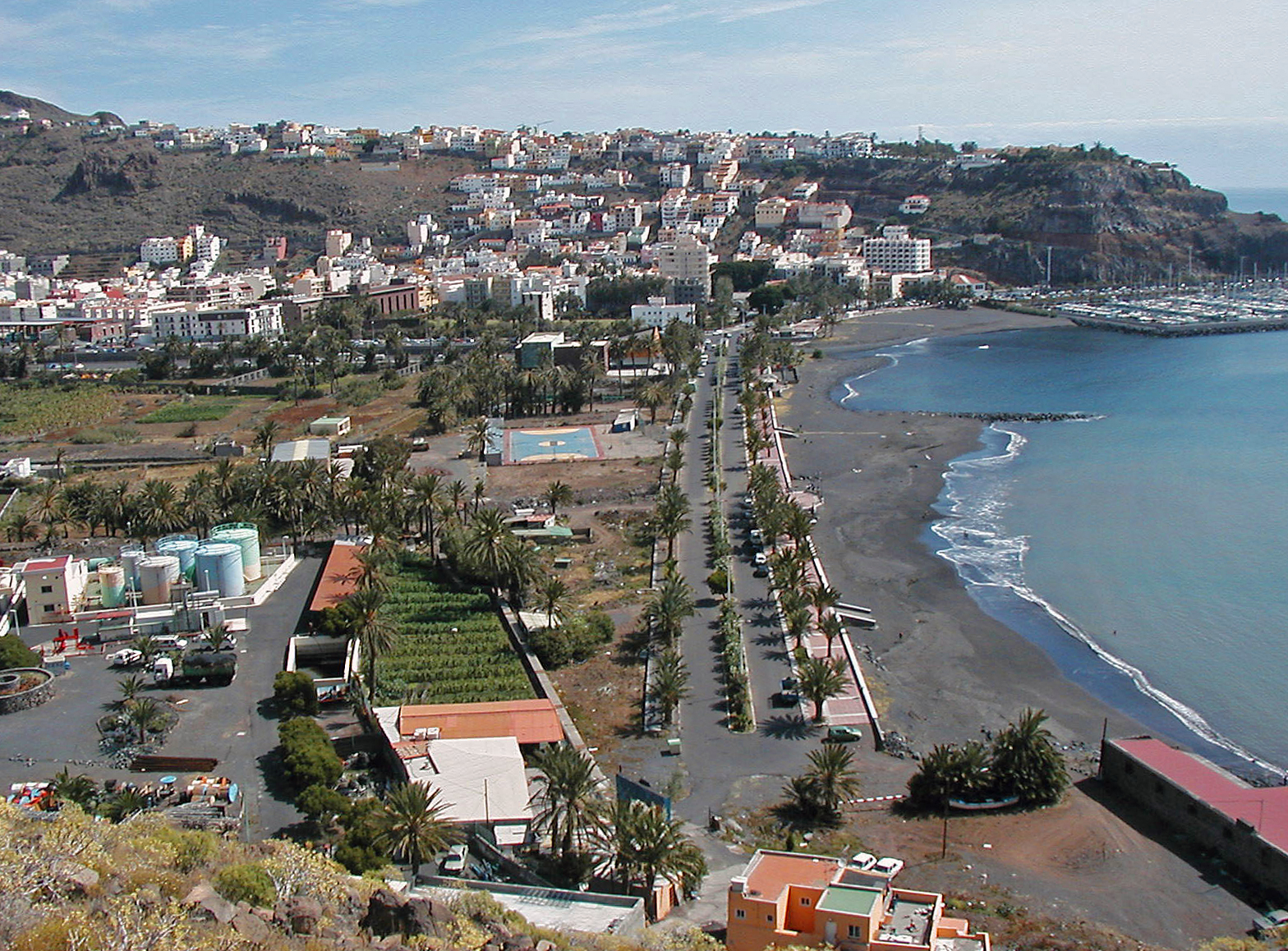 Part of San Sebastián de la Gomera on La Gomera